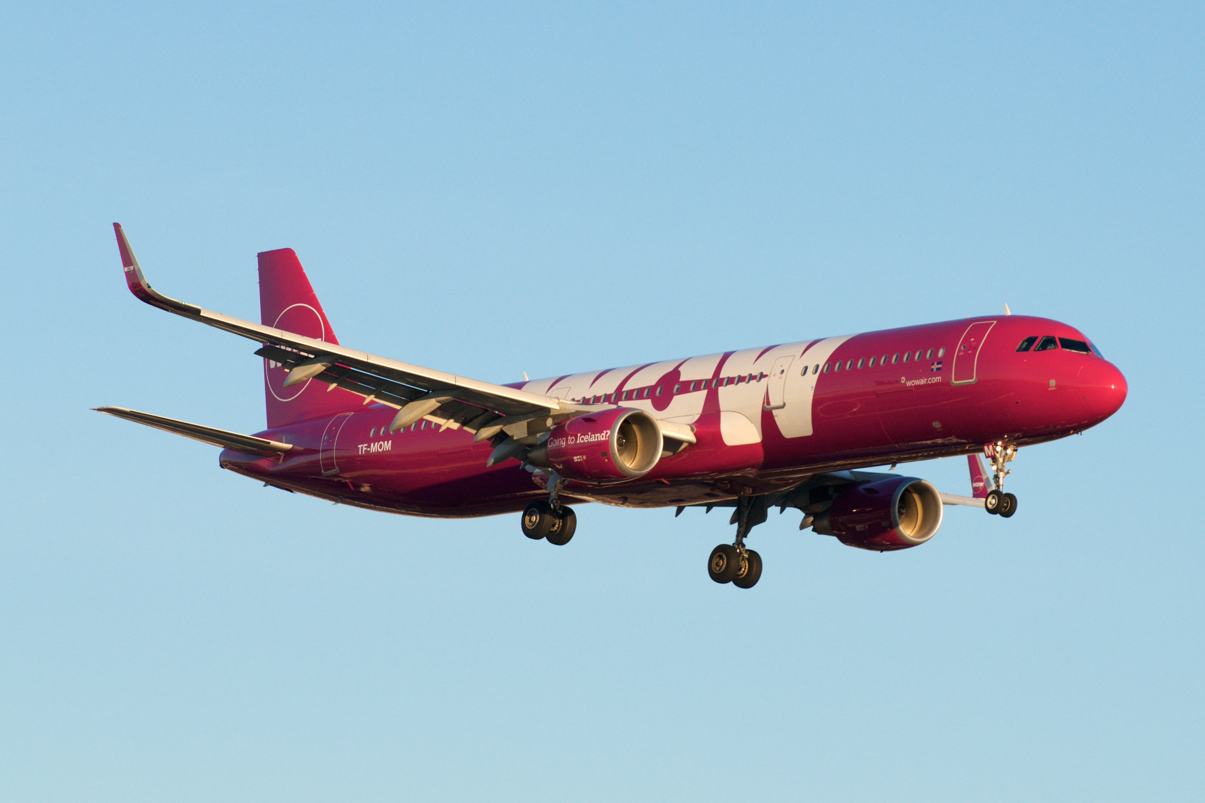 Approach YYZ